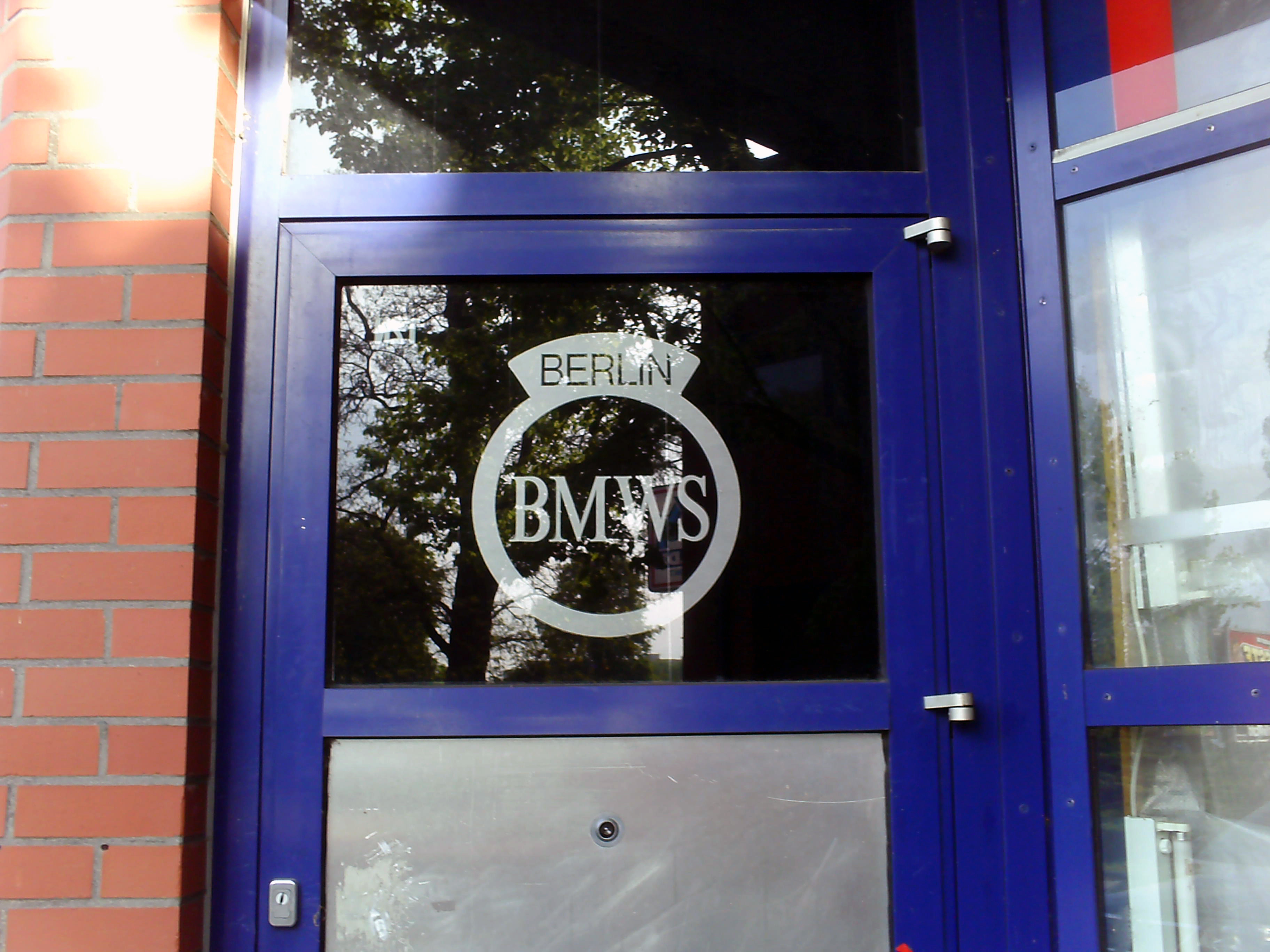 Remainder of the Berlin Military Welfare Service (BMWS), a part of the Berlin Infantry Brigade, at the now gone Cinema Complex of the (former) Britannia Centre Spandau.